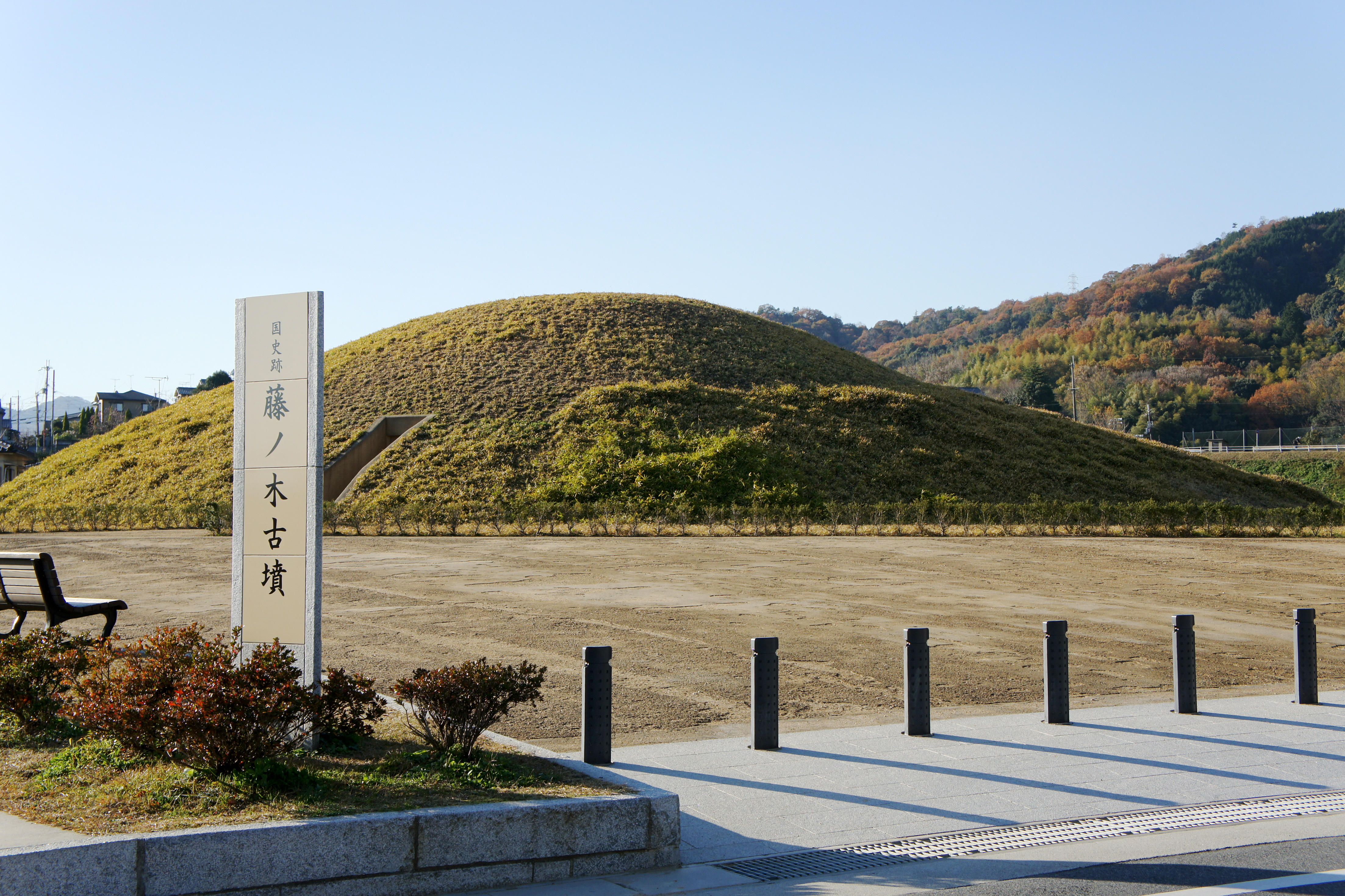 Fujinoki Tomb in Ikaruga, Nara prefecture, Japan.